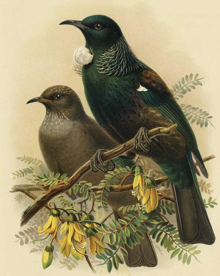 Tui (Prosthemadera novaezealandiae) (adult and young). A pair of tui seen in profile perched on branches with native Kowhai vegetation. The nearer adult bird shows its full range of plumage colour and a wattle.